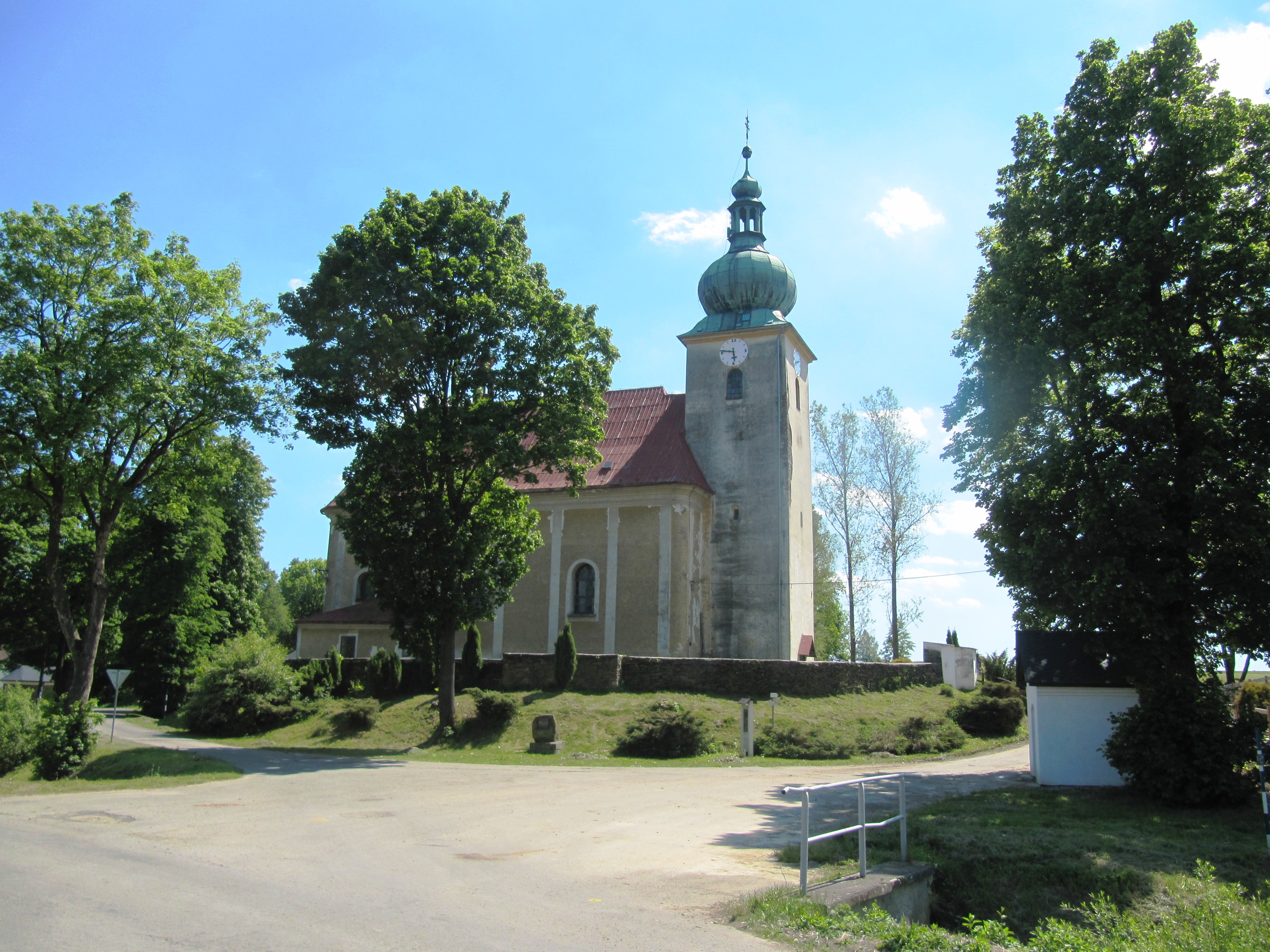 Budišov nad Budišovkou, Opava District, Czech Republic, part Staré Oldřůvky.